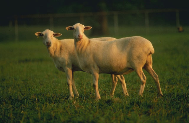 St Croix sheep from St Croix sheep thumbnail Image Number K3720-8 St. Croix hair sheep have a high resistance to certain internal parasites such as barberpole stomach worms. Photo by Perry Rech.